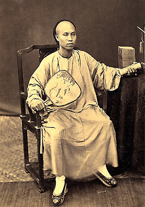 Commercant chinois à Hanoi (1884-1885).